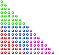 The sum of four triangular numbers and one is a perfect square (odd)